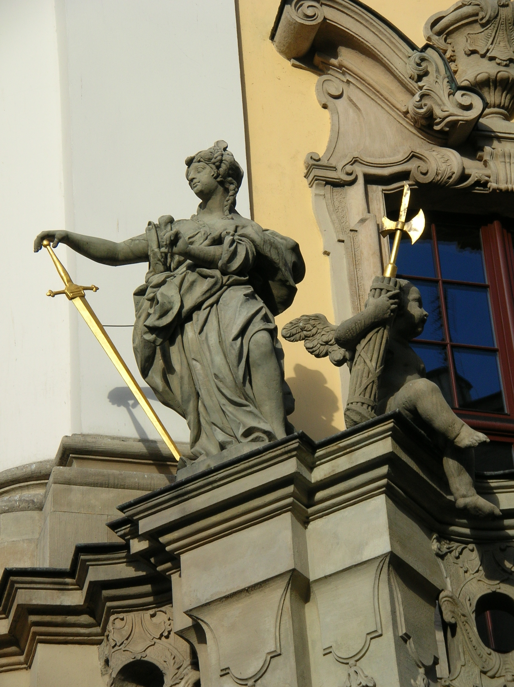 Wroclaw University, balcony with sculpture by Johann Albrecht Siegwitz